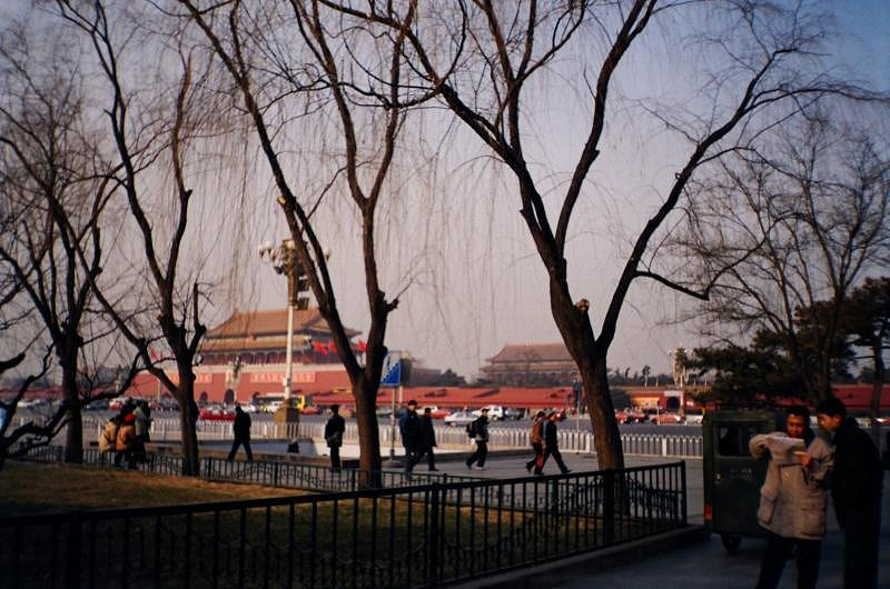 Tiananmen gate as seen through trees in front of the Museum of Chinese History, Beijing.